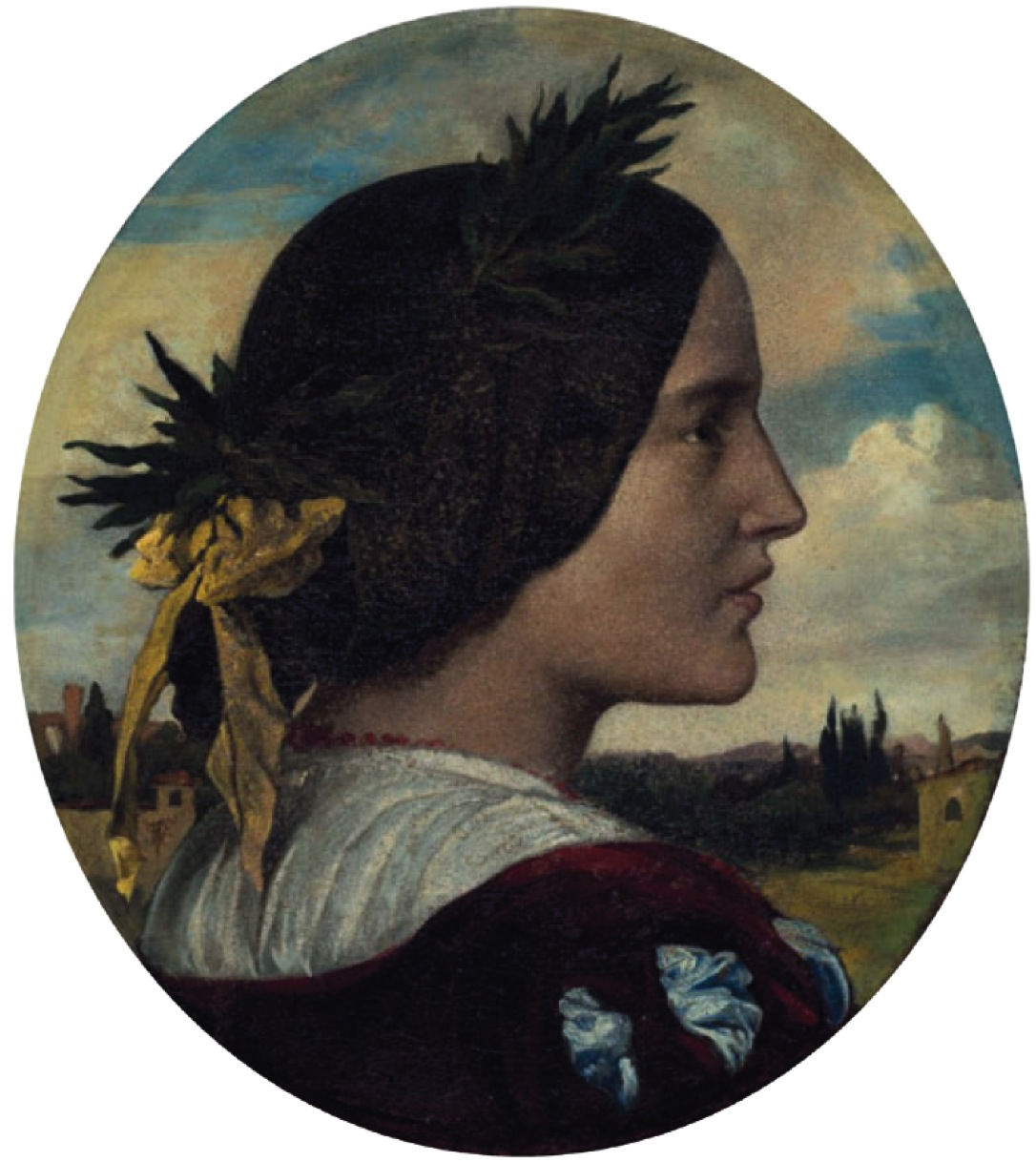 Alexandra Leighton (1828–1903)